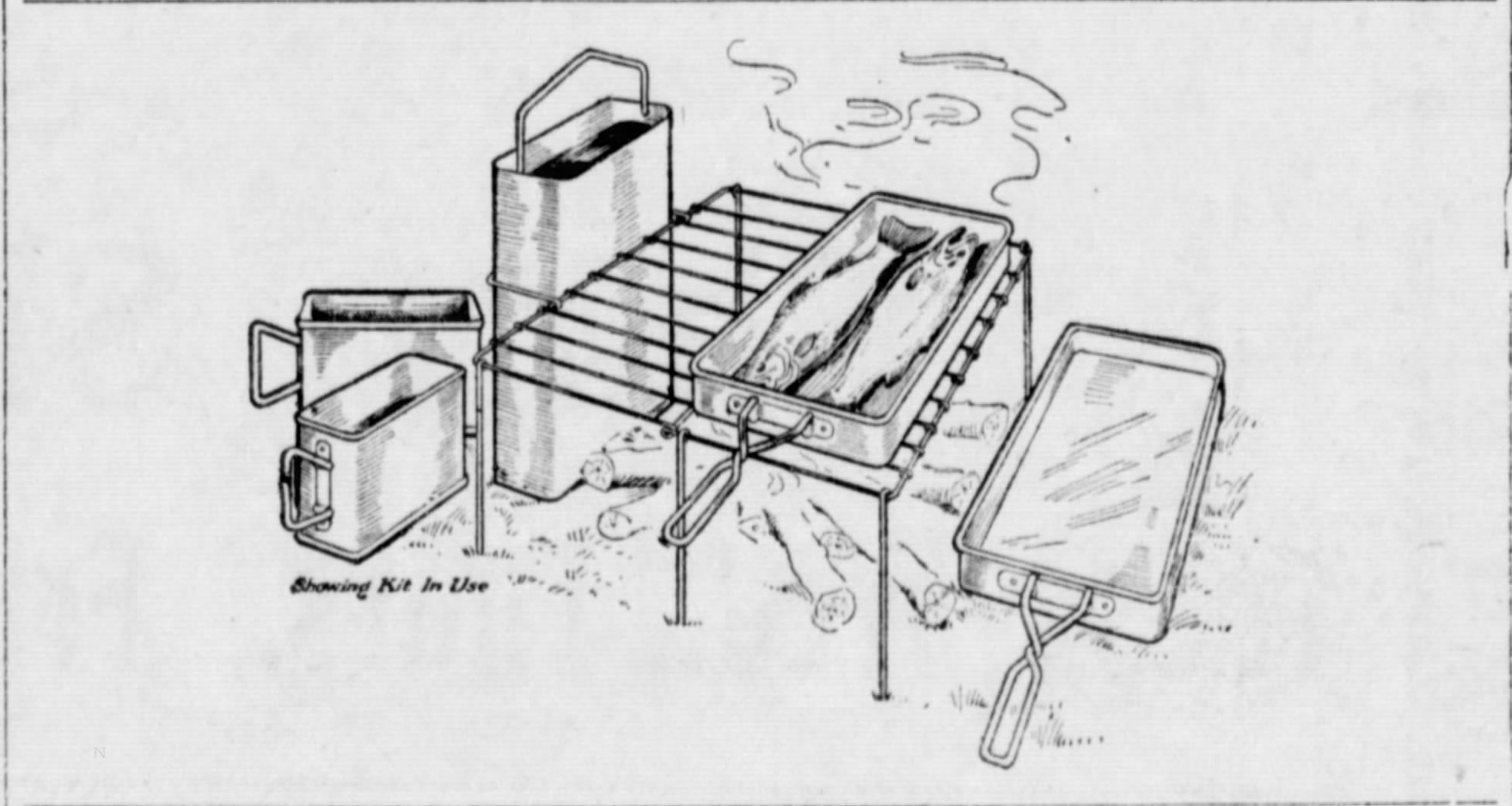 Kamp-Kook-Kit by Upton Machine Company Illustration